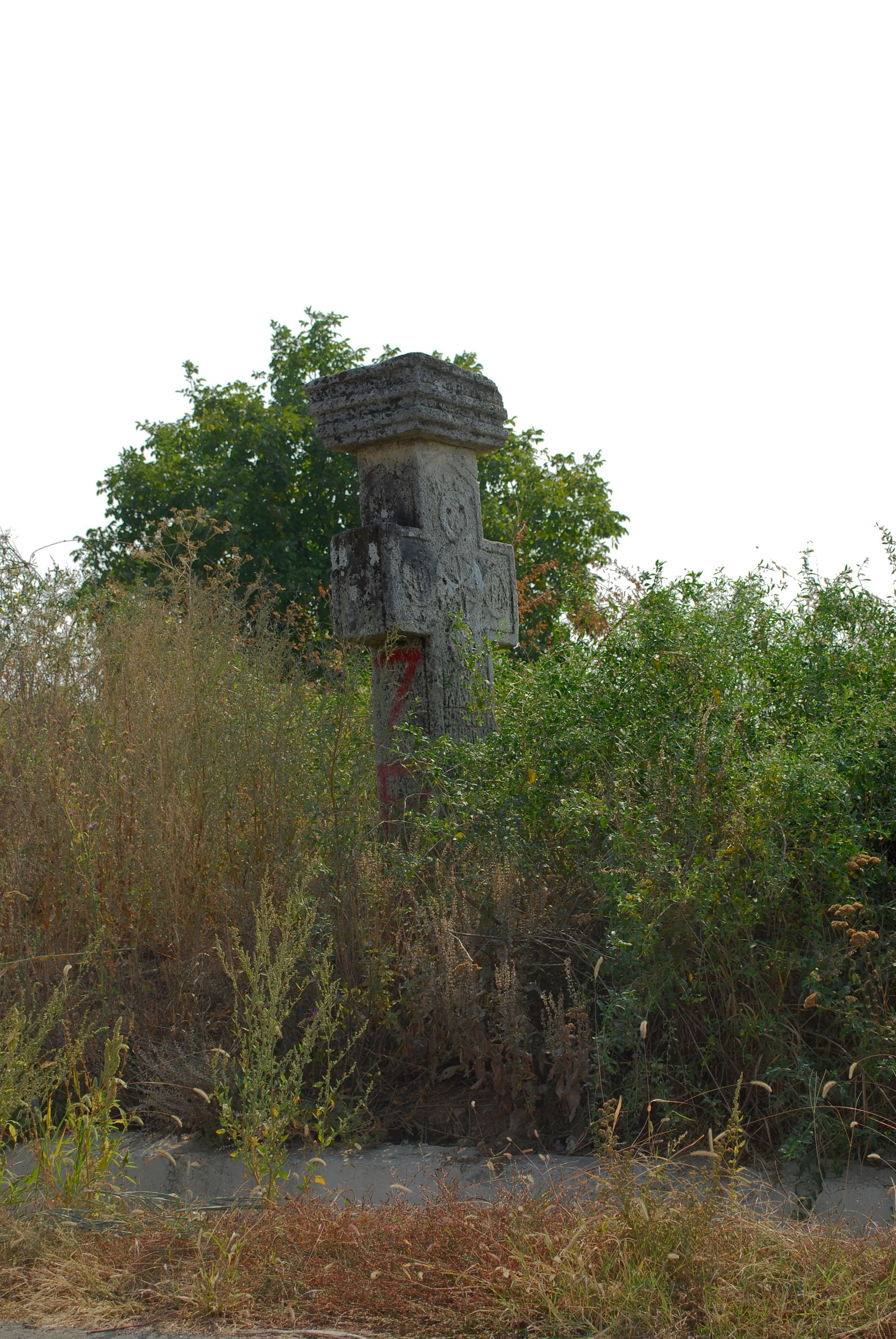 Stone cross in Dealu Viei, Merei commune, Buzău County, RomaniaRomână: Crucea de piatră din Dealu Viei, comuna Merei, judeţul Buzău, România